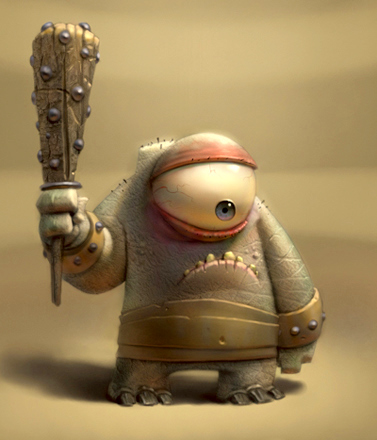 One of the monsters from BYU Animation's short film, "Pajama Gladiator" (edited by mwilson3).